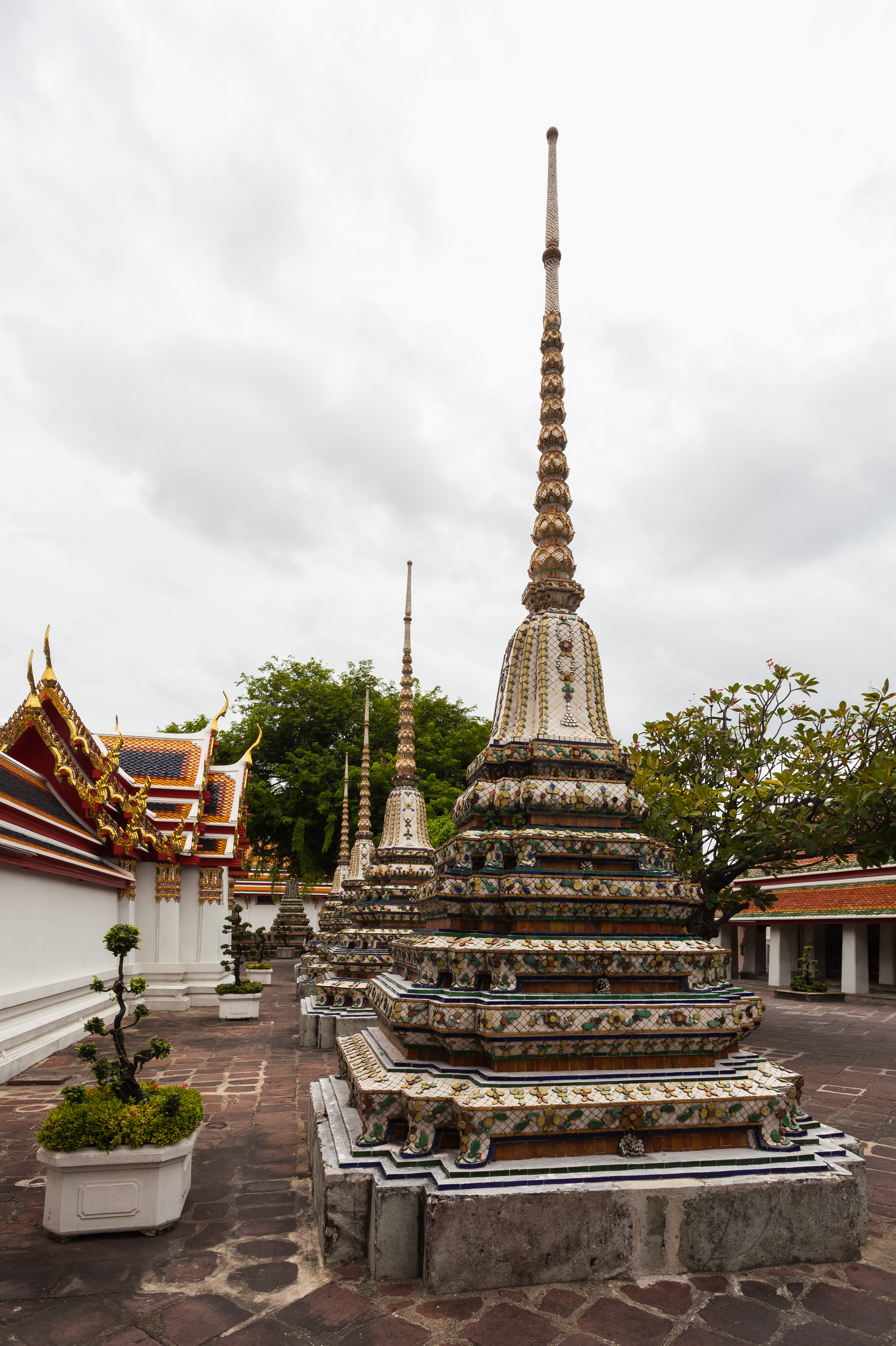 Wat Pho temple, Bangkok, Thailand